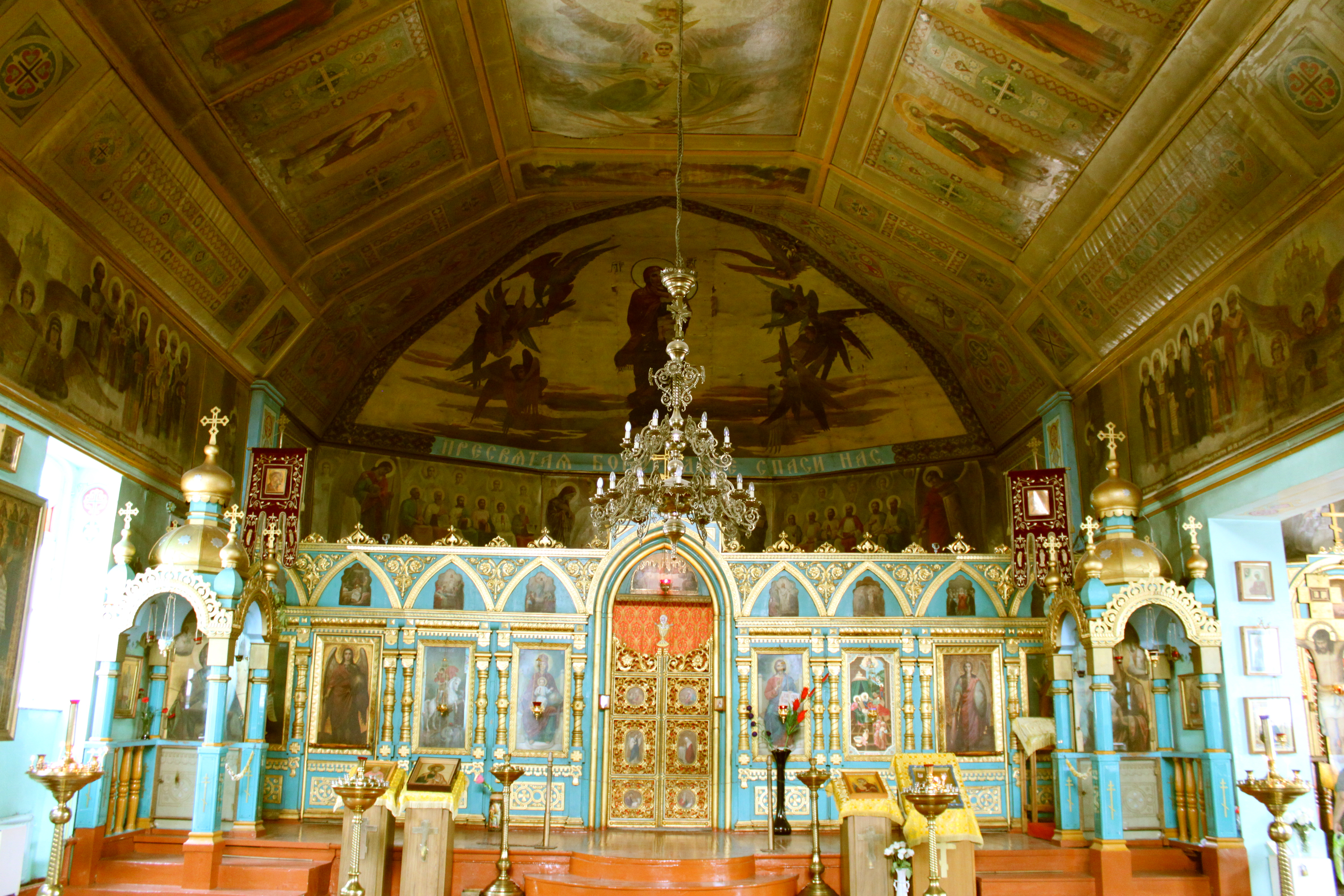 Saint Michael Archangel church in Baku